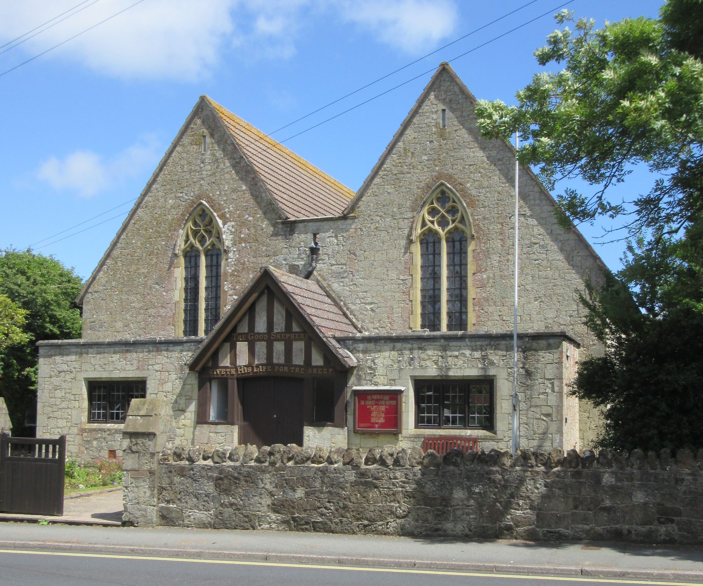 Church of The Good Shepherd, Lake Road, Lake, Isle of Wight, England. The Anglican parish church in the east-coast village of Lake.